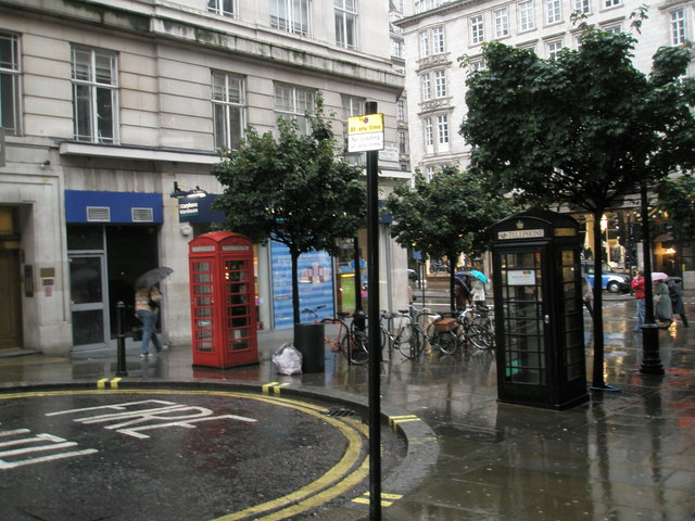 Contrasting phone boxes in Southampton Street